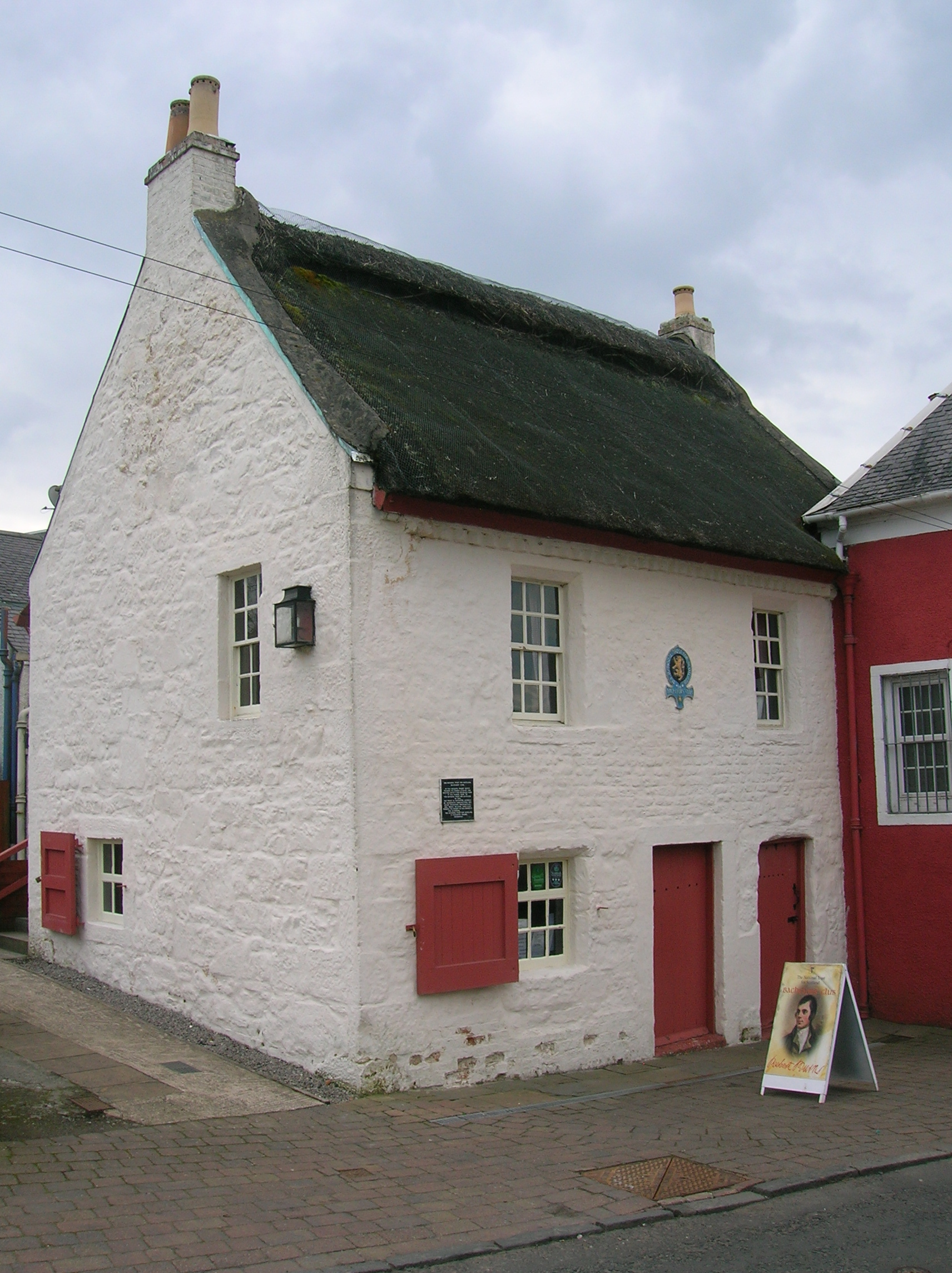 The Bachelors' Club, Tarbolton, South Ayrshire, Scotland.